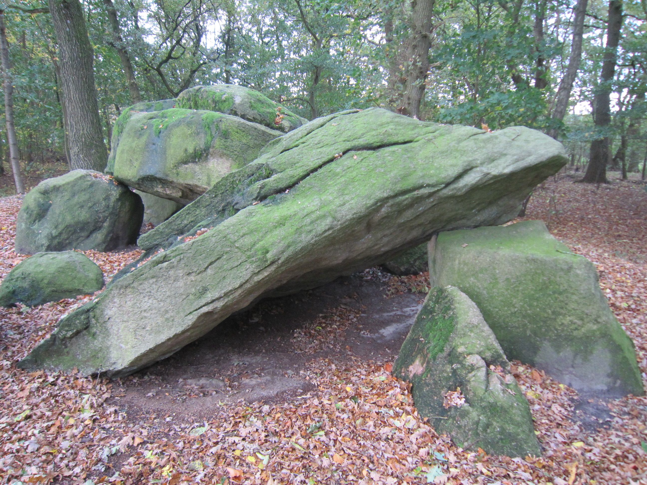 Dolmen "Bruneforths Esch" in Stavern